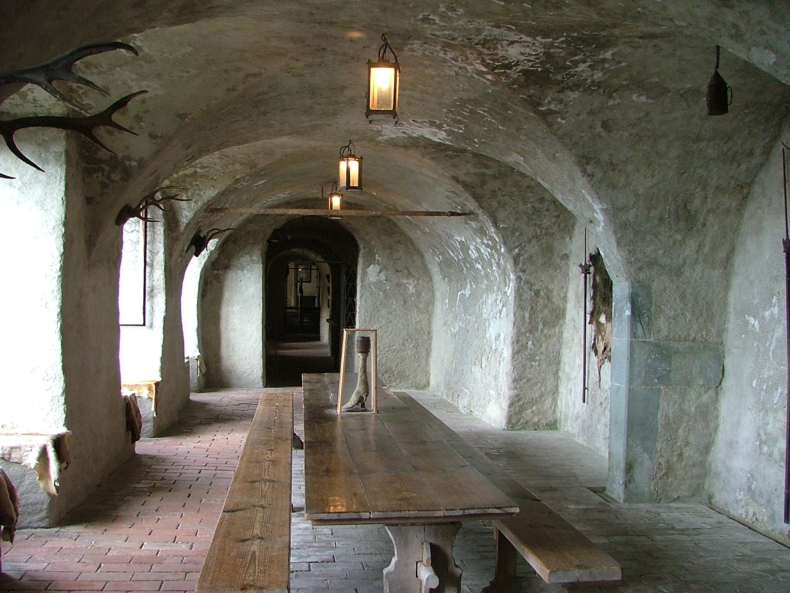 Knights Hall at Castle Meersburg on Lake Constance in southern Germany. This hall was decorated as it might have been during the 13th Century